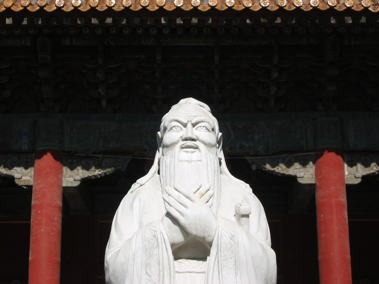 A statue of Confucius (Kongzi) in the Confucian Temple in Beijing.